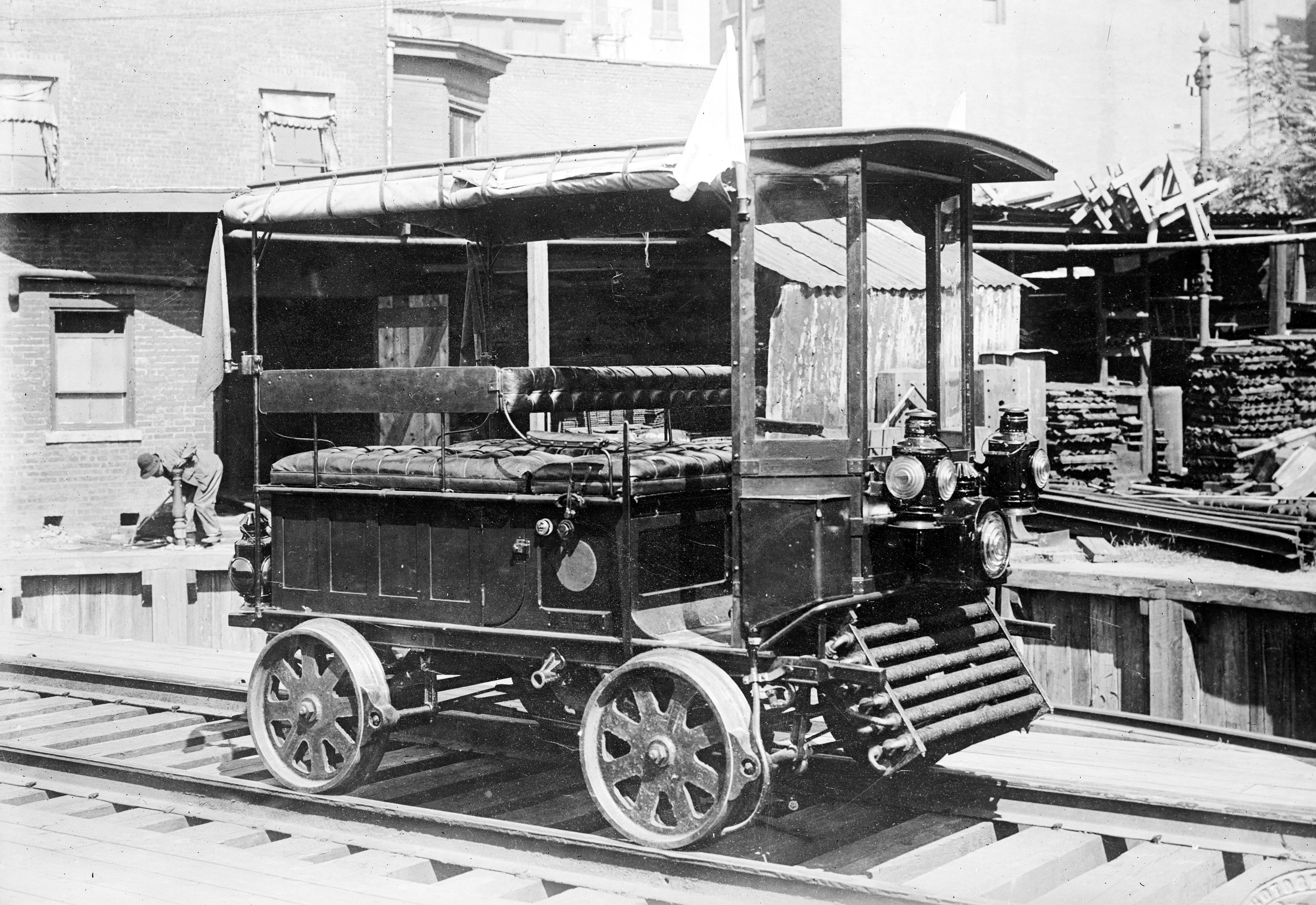 A gasoline-powered draisine on the New York Central Railroad.